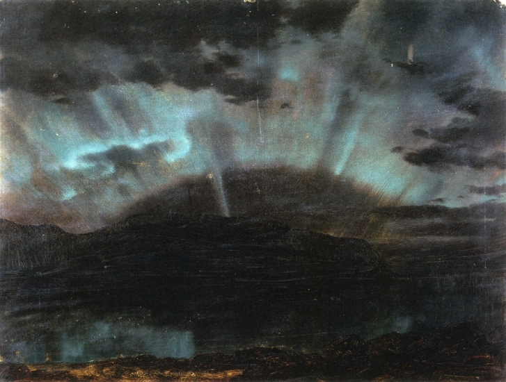 Aurora Borealis, Mt Desert Island, from Bar Harbor, Maine (painting by Frederic Edwin Church, 1860)